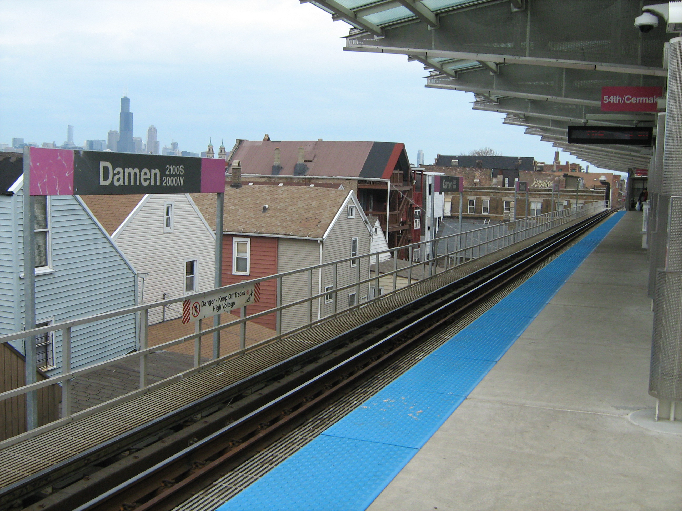 Damen CTA pink line Station